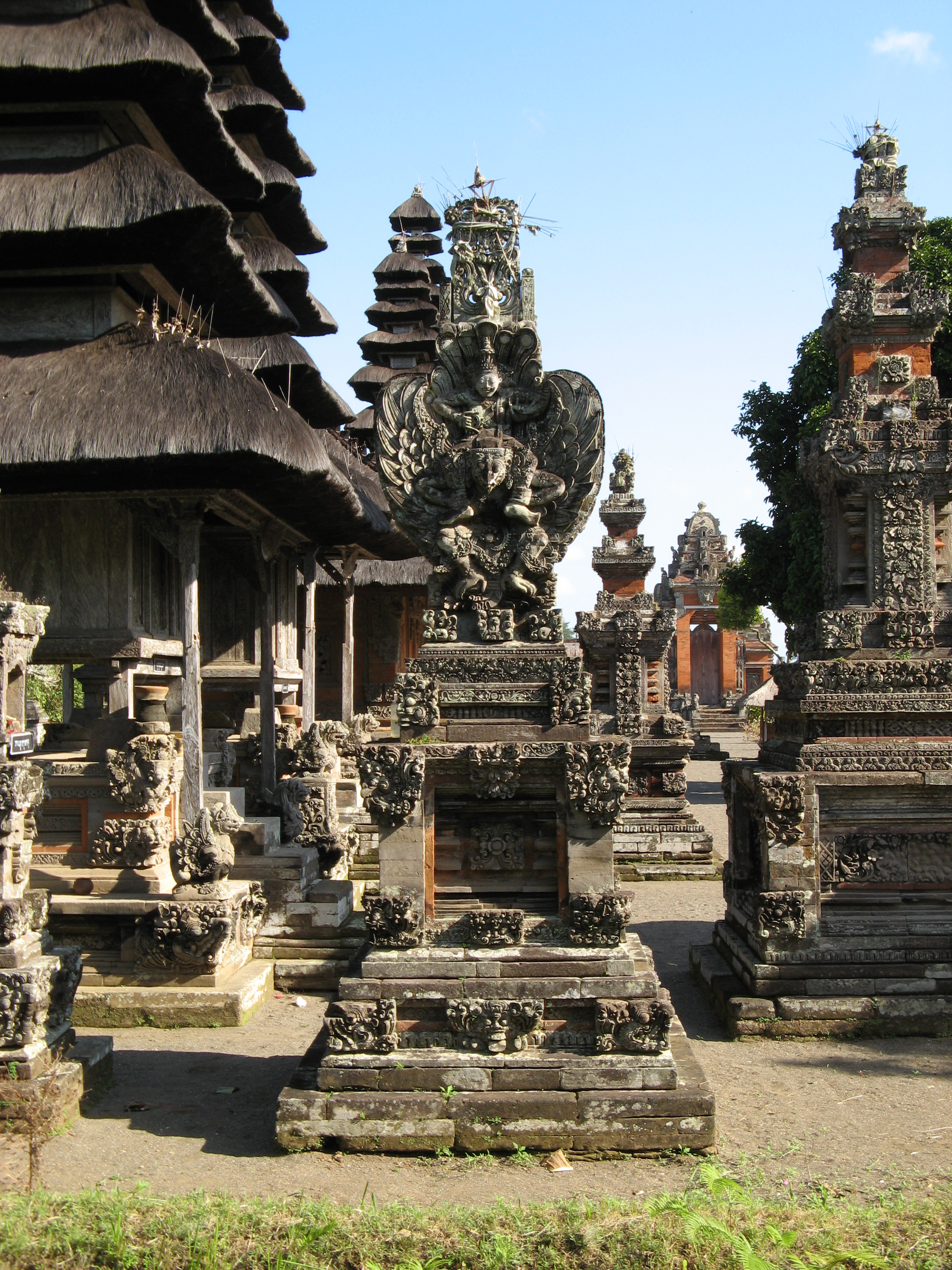 Garuda Shrine. Pura Taman Ayun, Mengwi. The shrine with Garuda and Vishnu faces kaja towards Mt. Agung. The inner gate where we started can be seen in the distance. We are at the far end of the temple now.